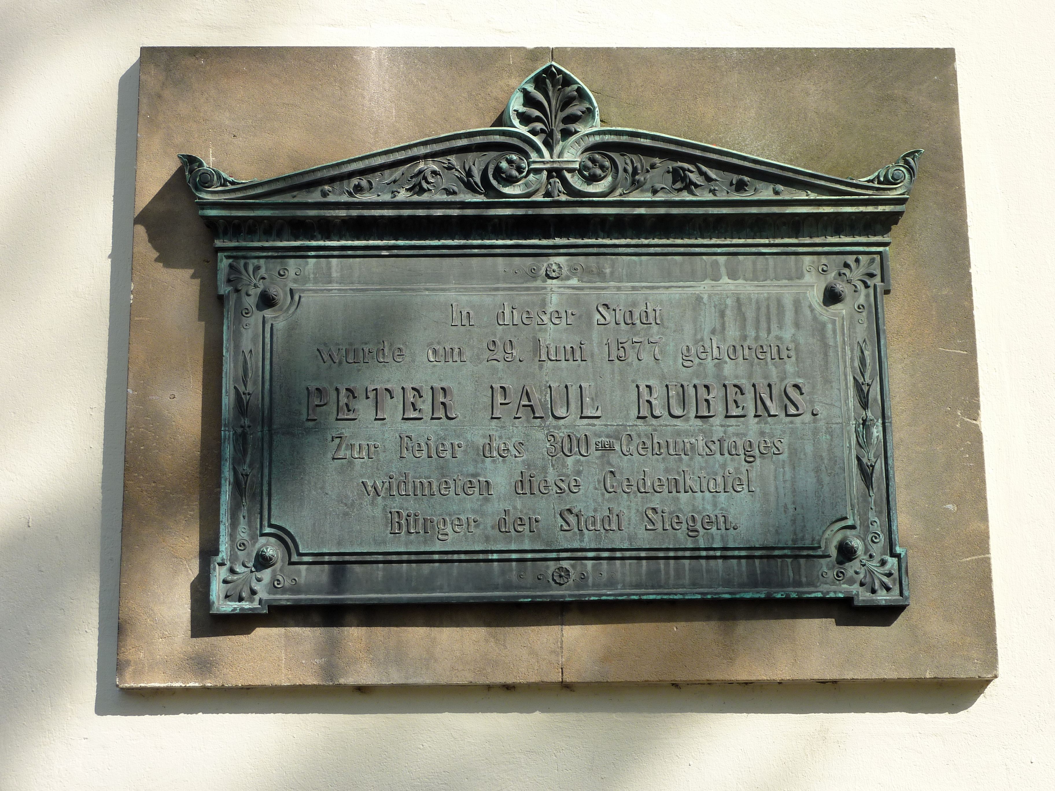 City of Siegen (Westphalia, Germany): Plaque of 1877 on the fassade of the local city hall, commemorating the birth of baroque painter Peter Paul Rubens in Siegen on June 29, 1577.